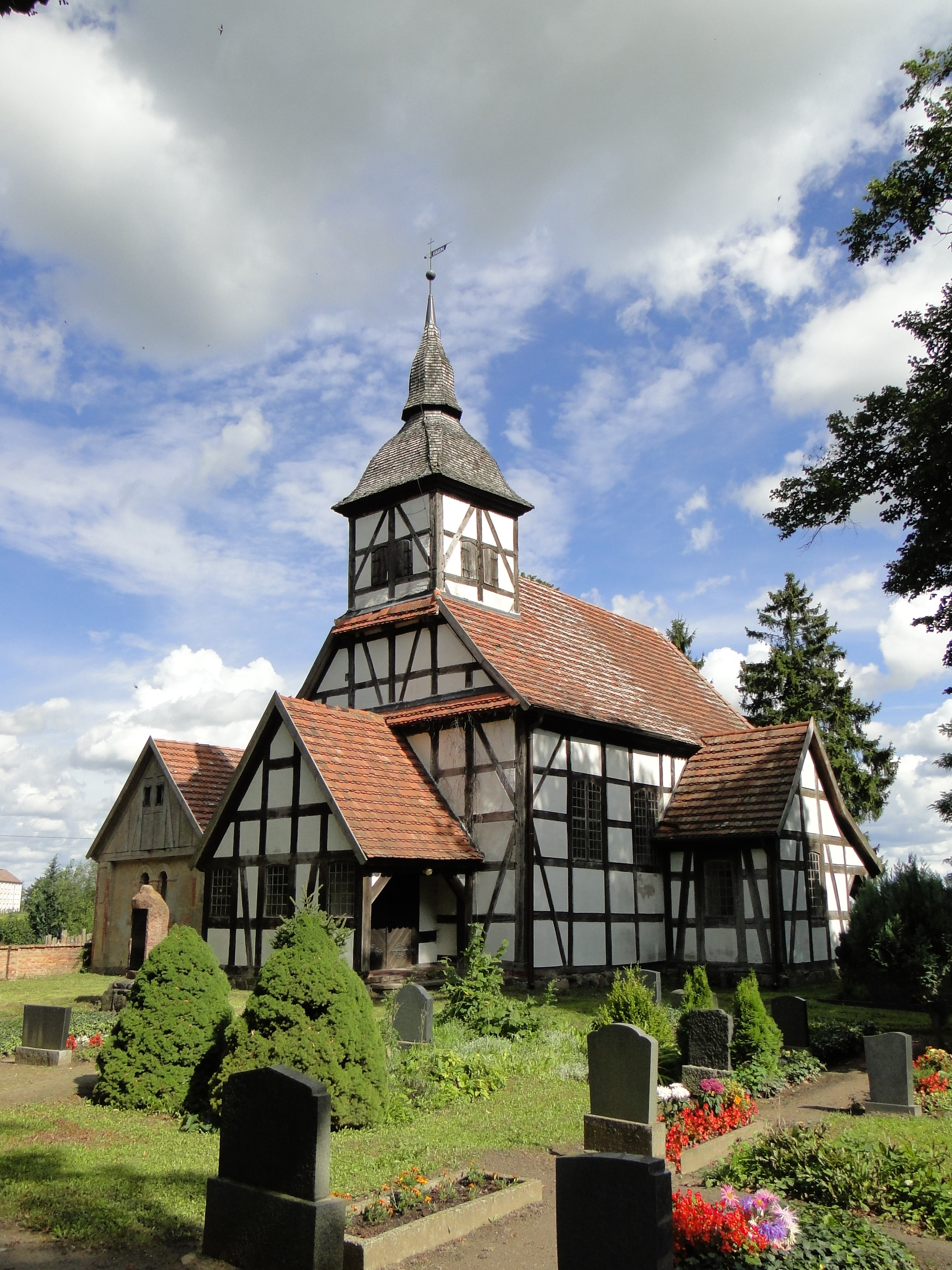 Church in Groß Vielen, district Müritz, Mecklenburg-Vorpommern, Germany